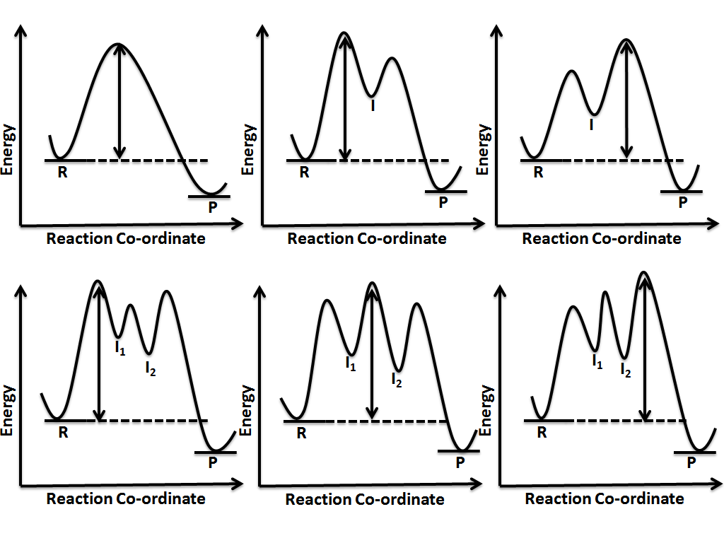 The double-headed arrow shows the rate determining step for each chemical transformation depicted in the reaction co-ordinate diagram